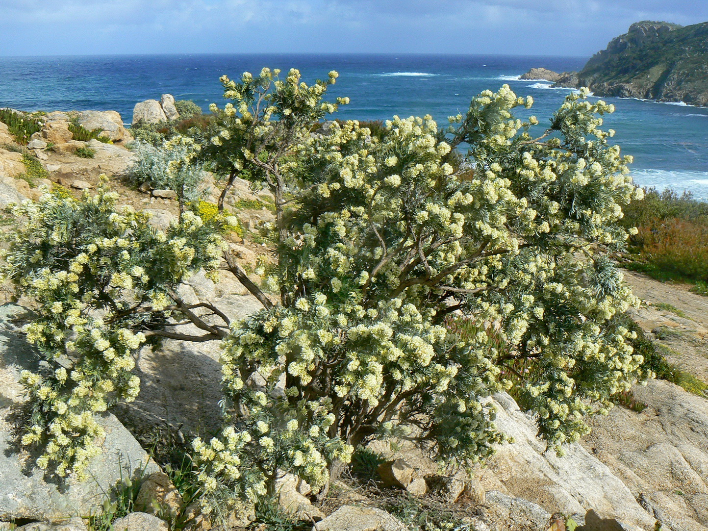 Anthyllis barba-jovis, Point de la Douane, Ramatuelle, Var (France)